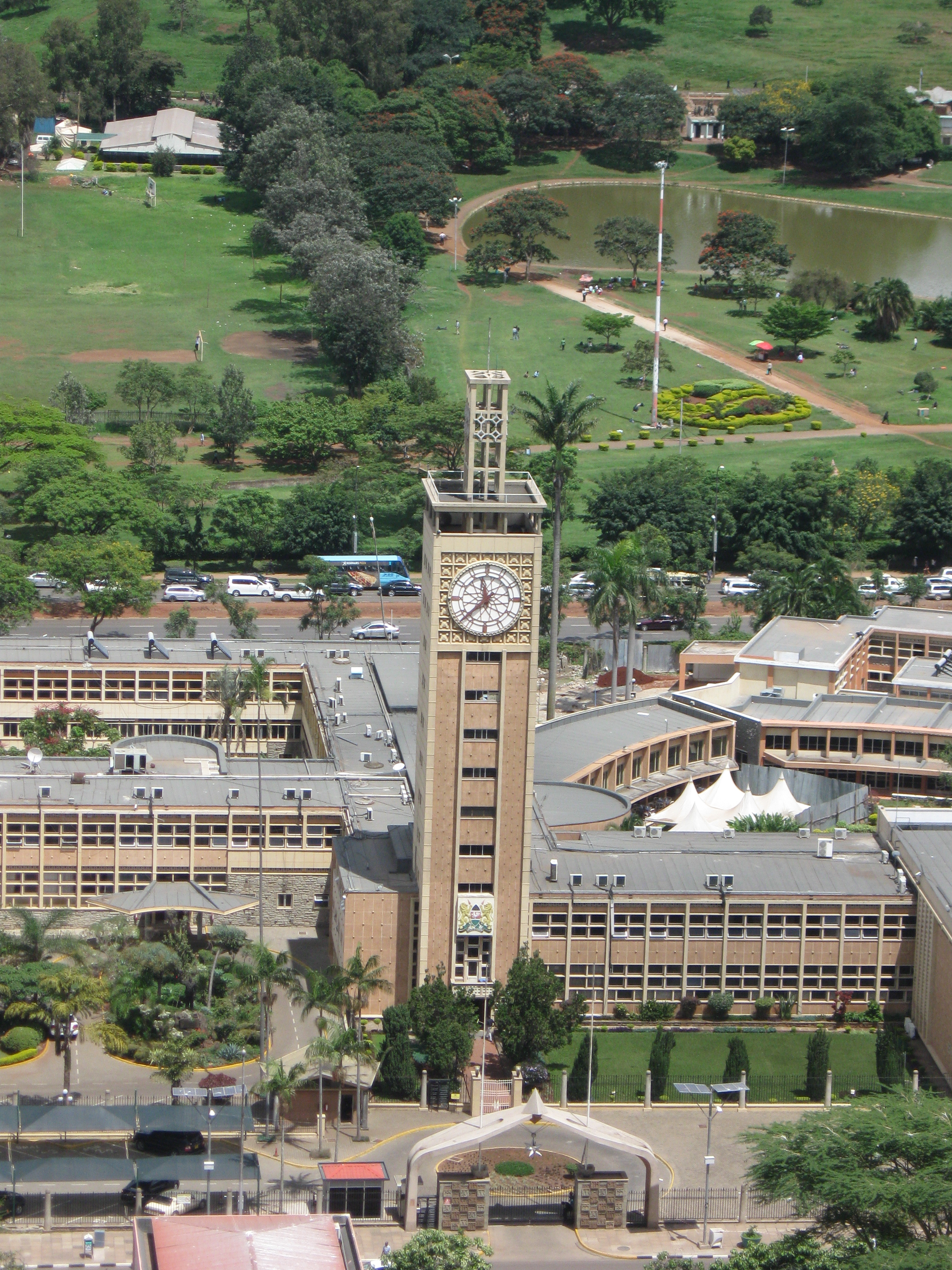 Parliament of Kenya from the Kenyatta International Conference Centre tower